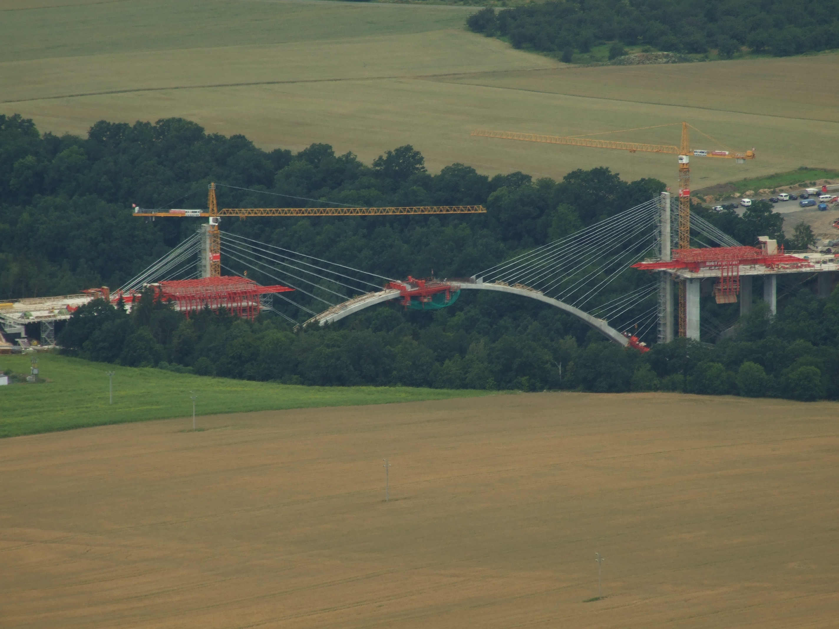 Highway D8 under construction (July 2009) seen from Lovoš hill near Lovosice, Litoměřice district, Ústí nad Labem Region, CZhelp